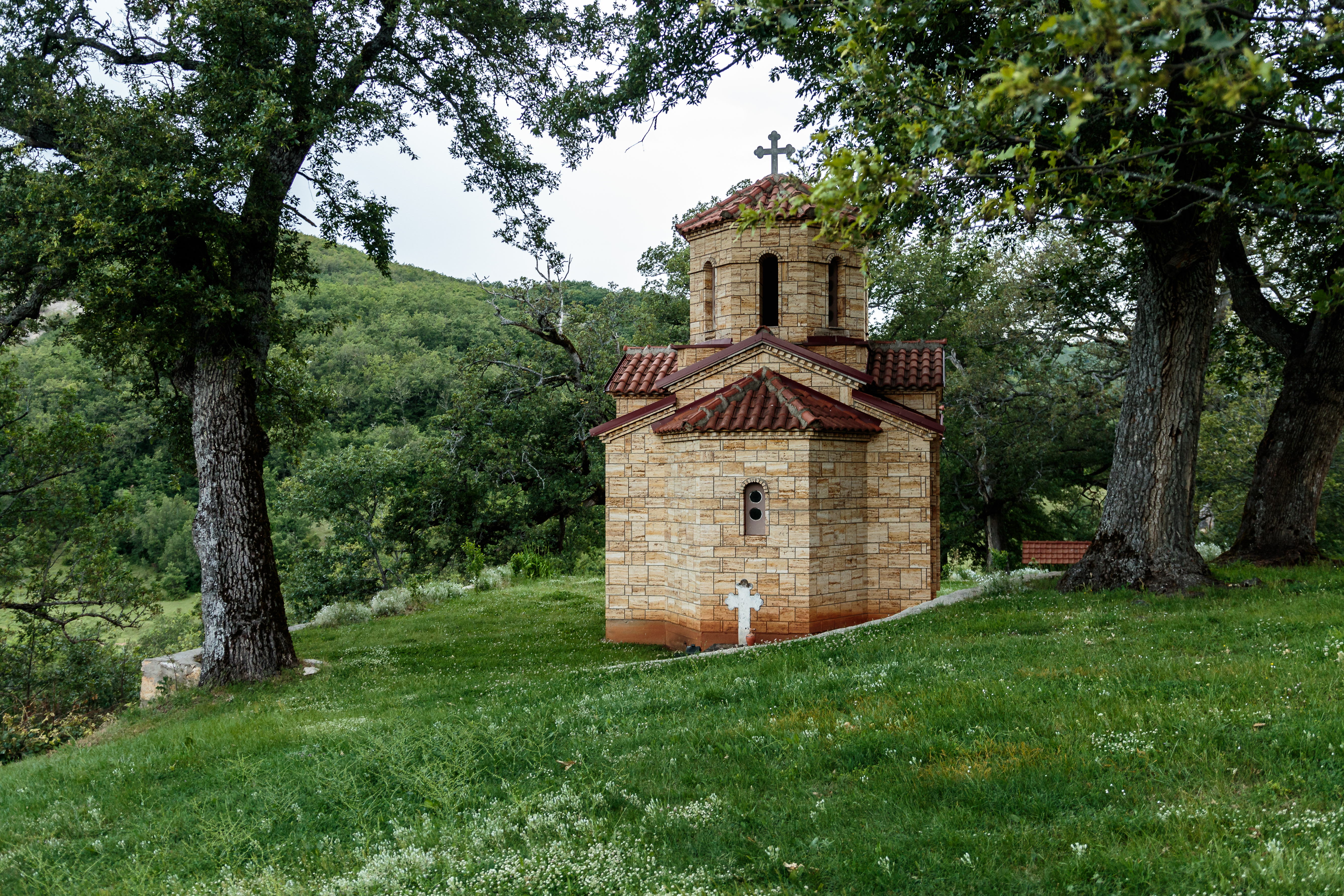 View of St. Athanasius Church in the village Sopotnica